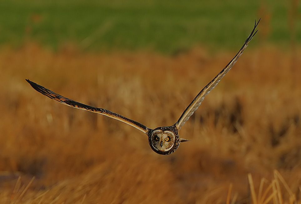 A bird hunting over coastal grassland in the warm light of a low winter sun. Image taken near Musselburgh, East Lothian, Scotland.